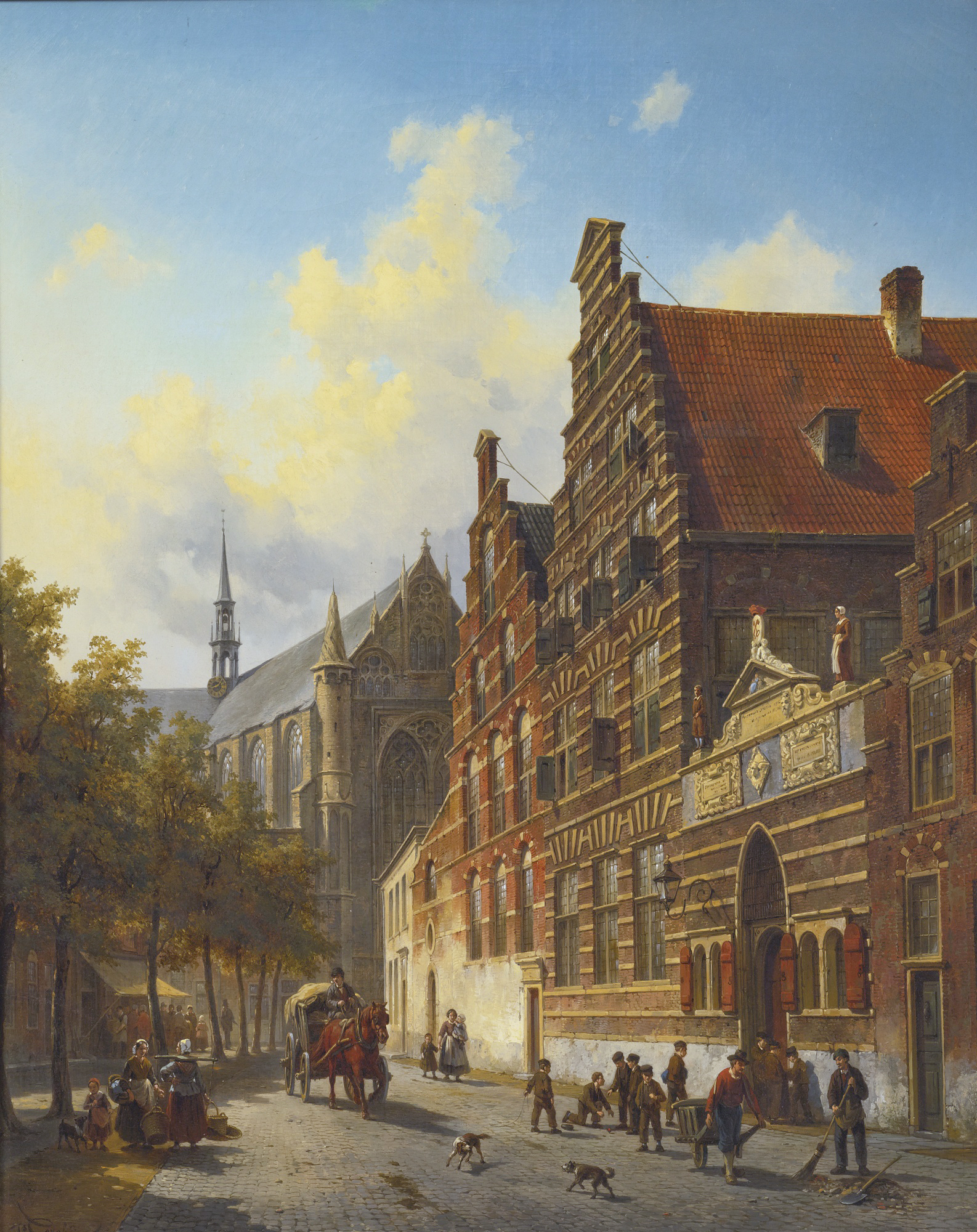 Weeshuis in Leiden oil on canvas mounted on masonite 76.8 x 62.2 cm signed b.l.: J. Carabain 1867